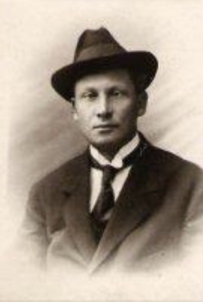 Ferdinando Bosso young